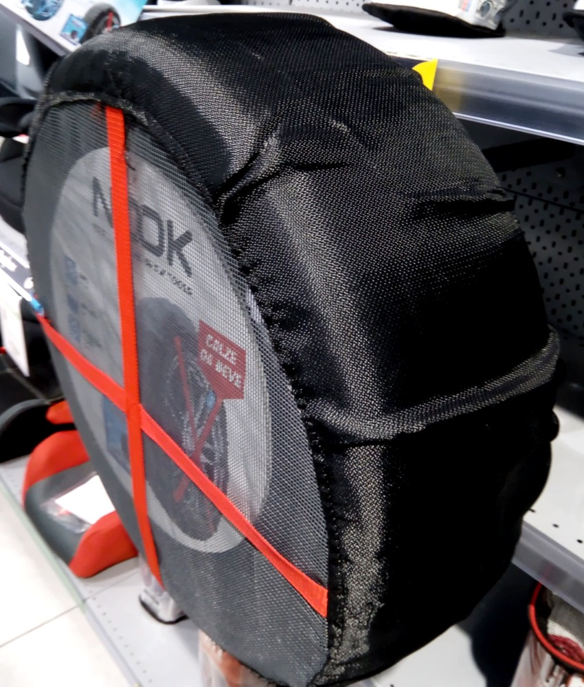 Snow Socks